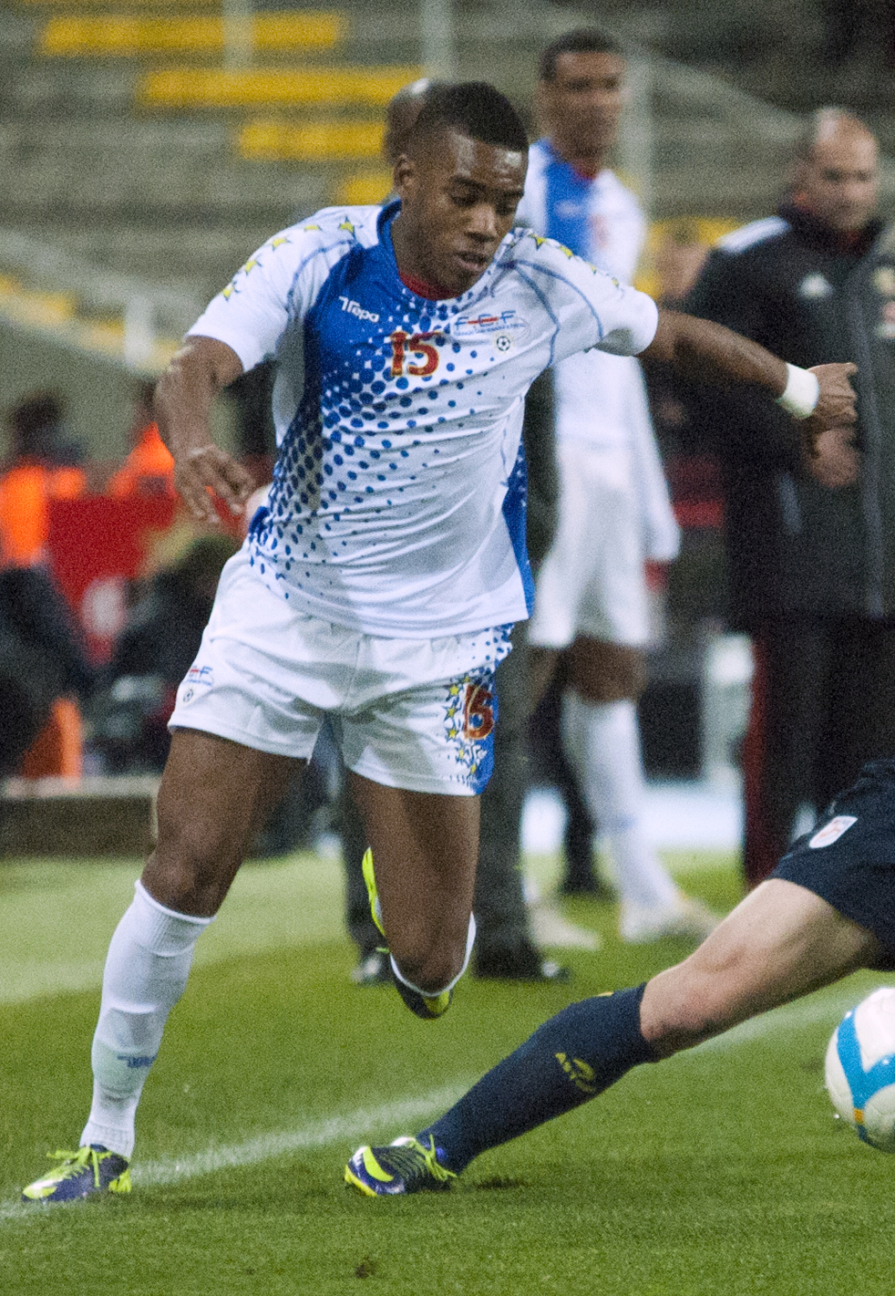 Cape Verdean international football player Garry Mendes Rodrigues during friendly match Catalonia vs. Cape Verde